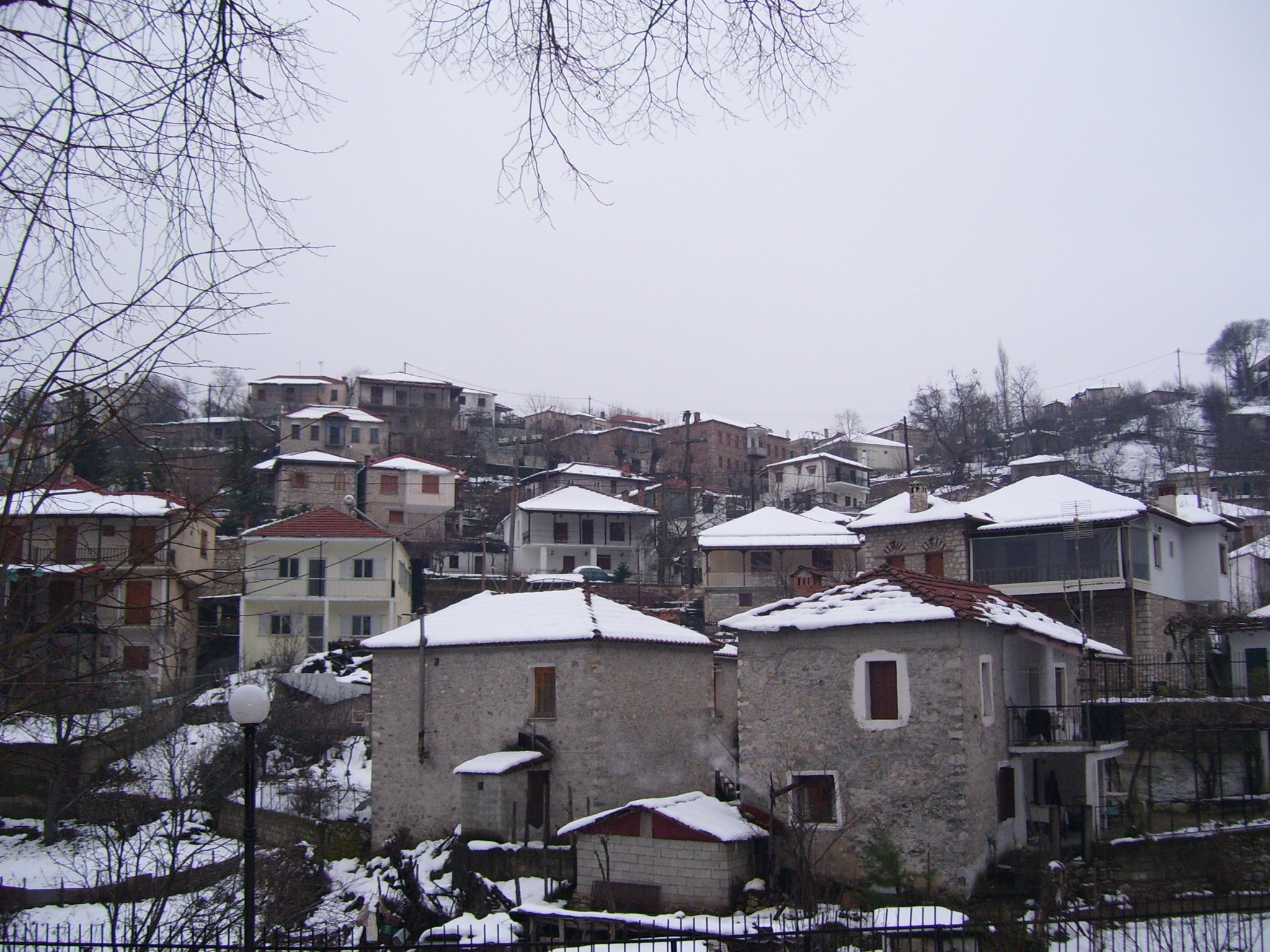 Ellinopyrgos, village in Karditsa prefecture